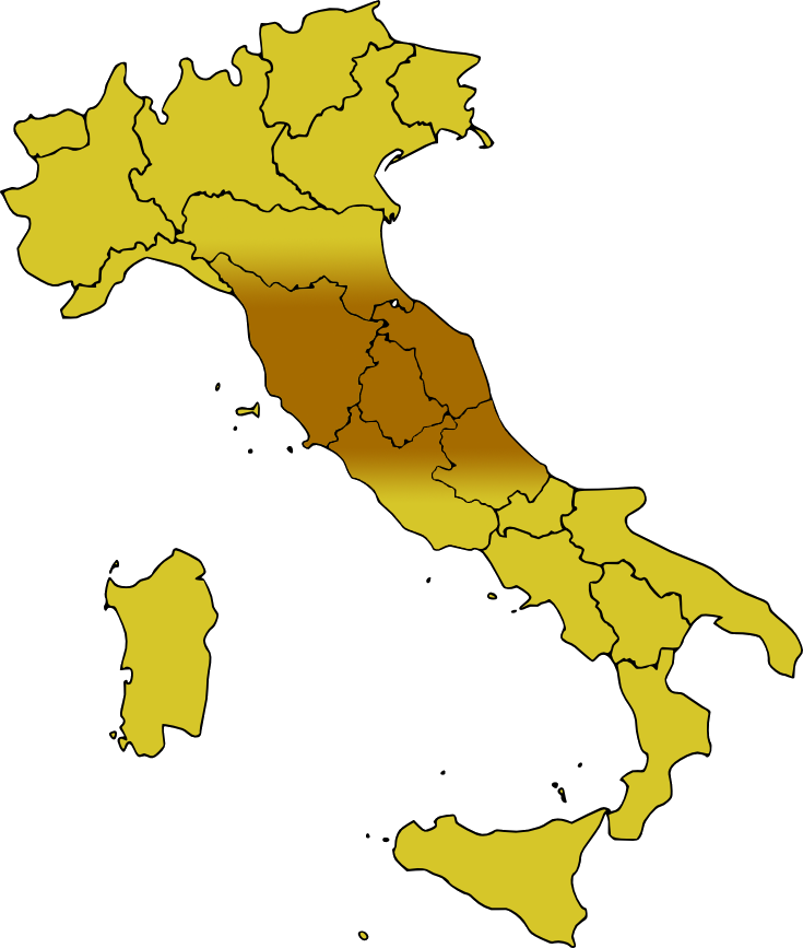 Geopolitical map of central Italy.